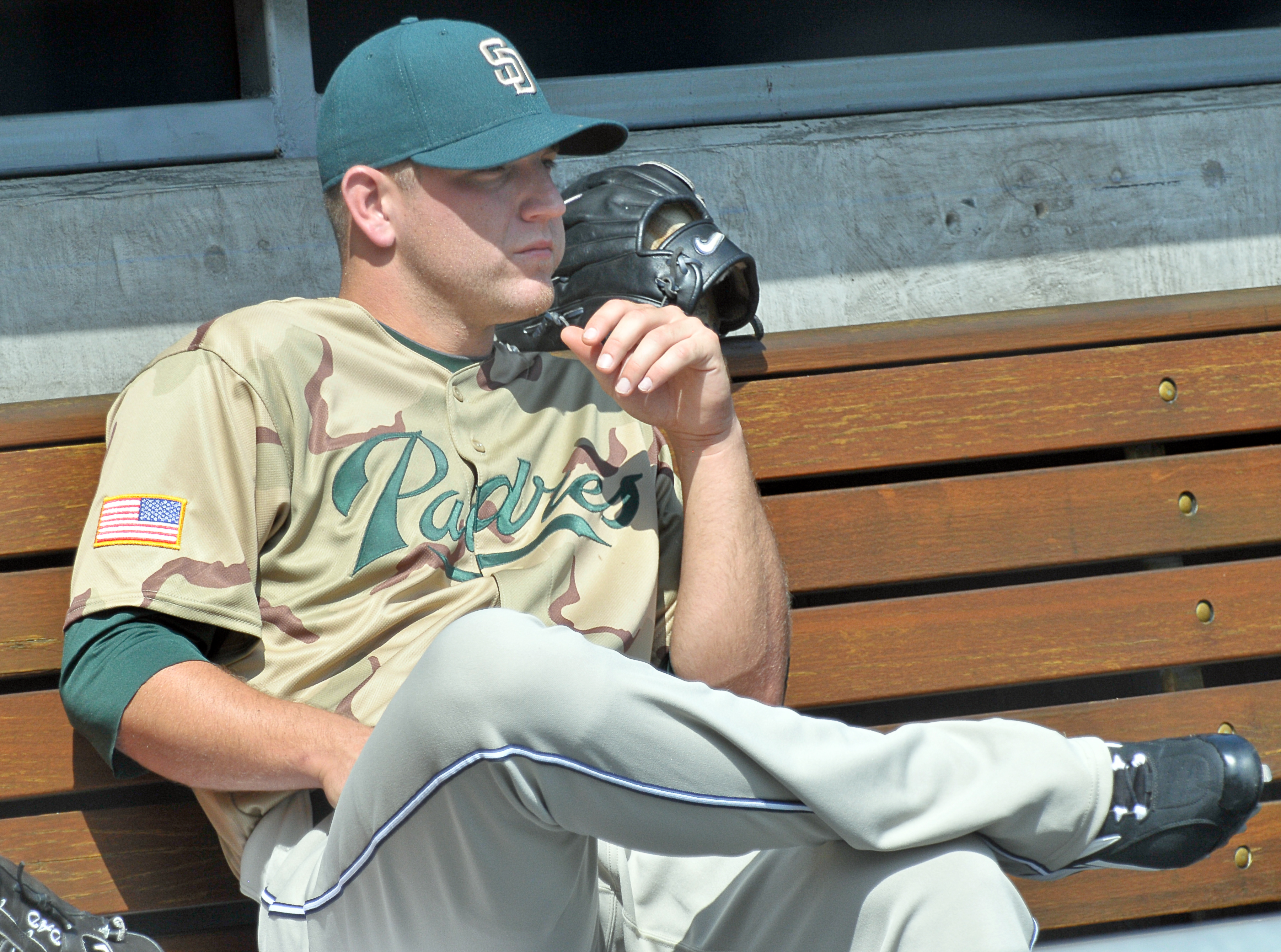 Charlie Haeger knuckleball pitcher for the San Diego Padres Sept 2008 sitting in bullpen